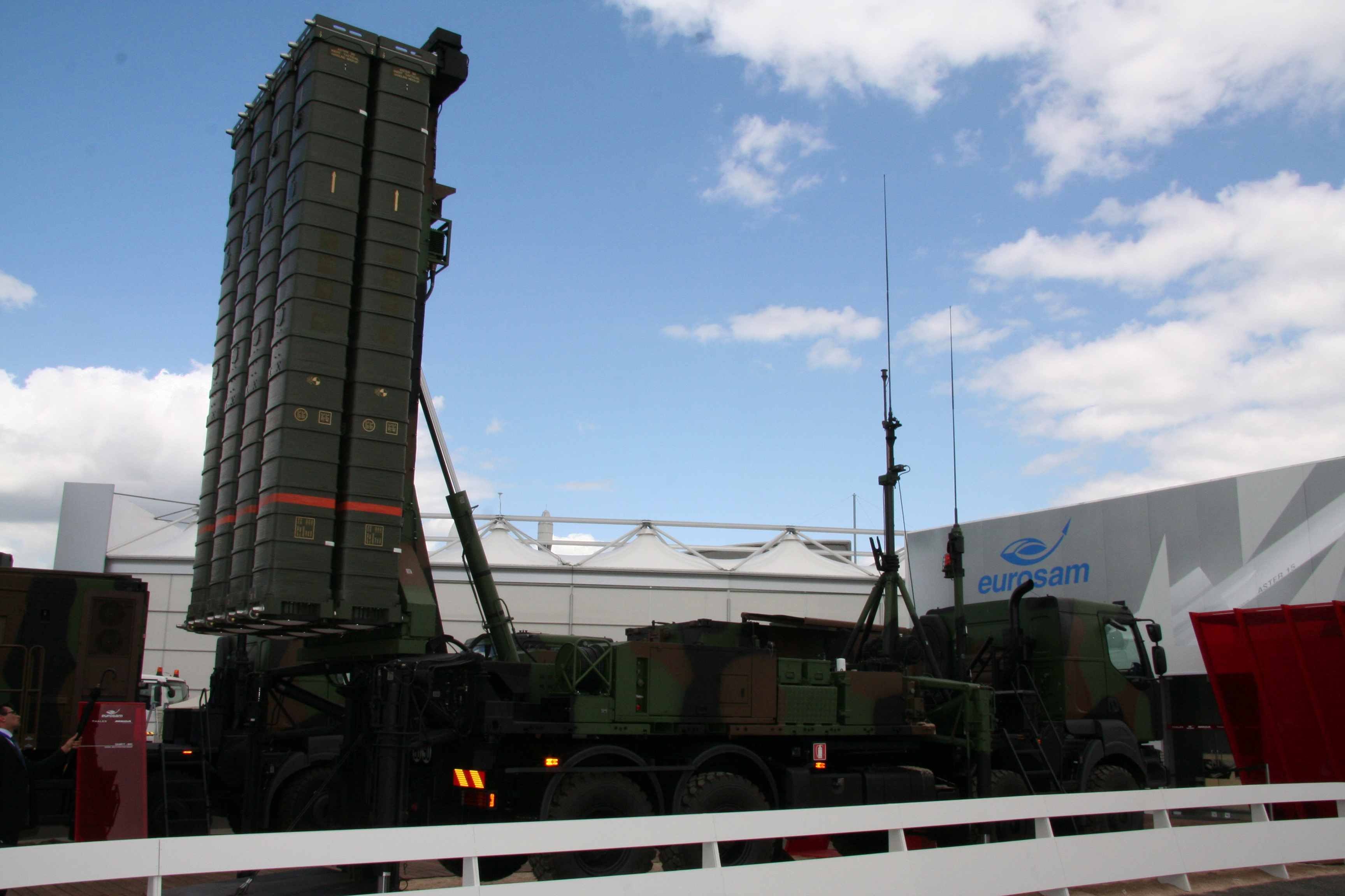 MBDA Aster 30 - Paris Air Show 2009